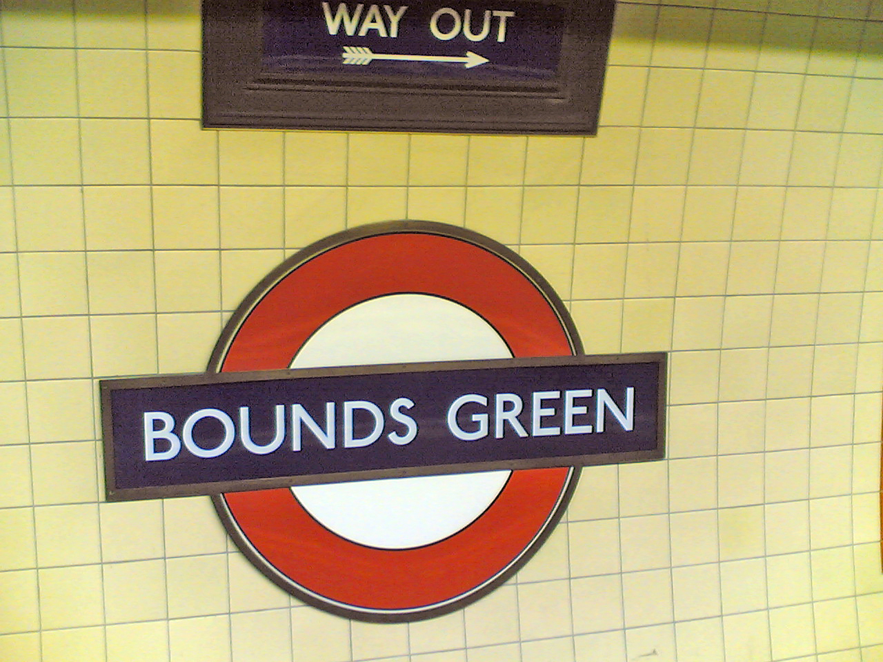 London Tube Station of Bounds Green (detail)